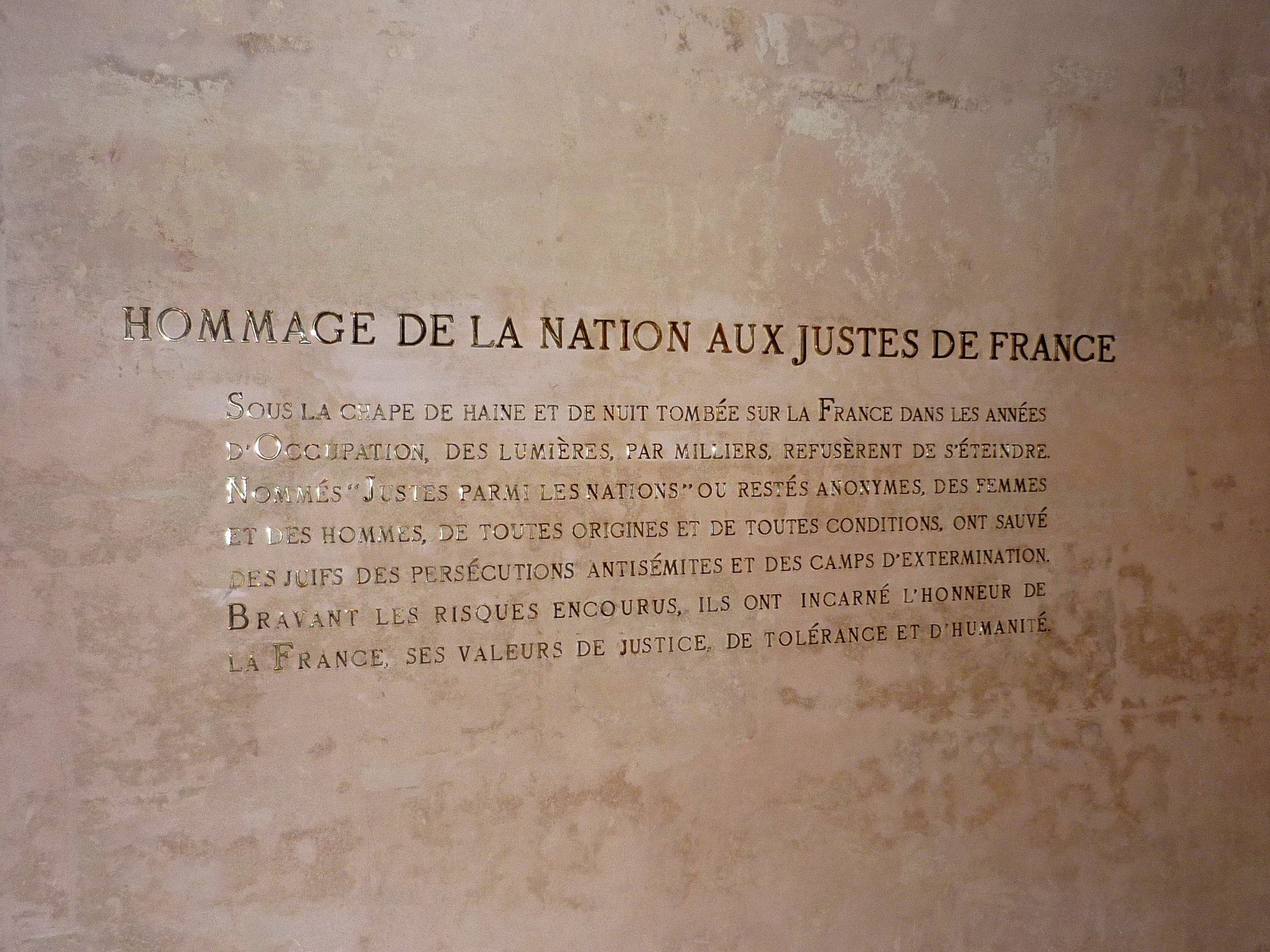 Inscription of Justes de France, Panthéon, Paris, France